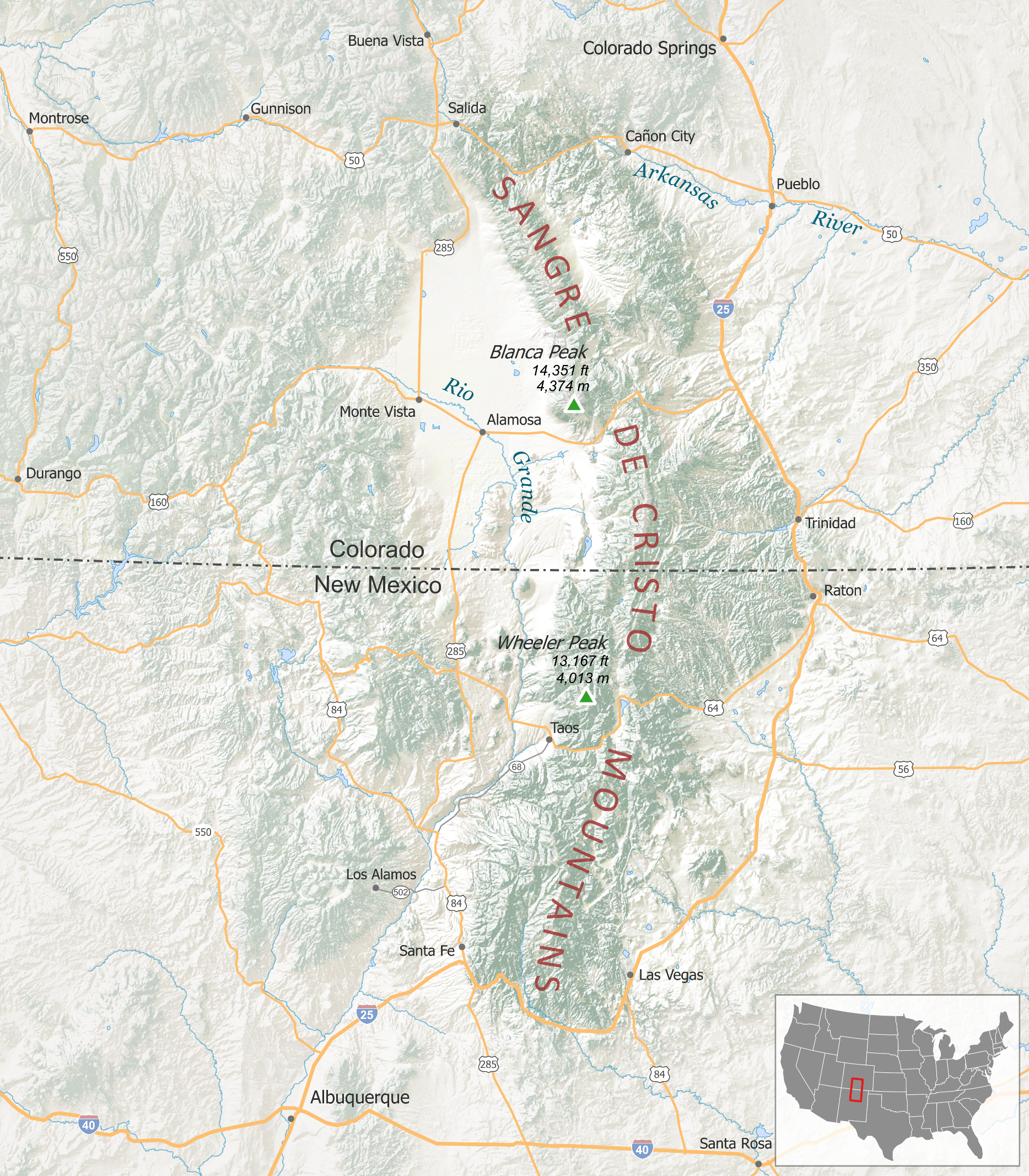 Projection: Main Map - NAD83 UTM Zone 13N Scale - 1:2,000,000 Location Map – North America Albers Data Sources: Land Cover, Highways, Shaded Relief, Cities/Towns, Hydrography – The National Map Small Scale Collection Peaks – USGS GNIS State Boundaries – Natural Earth data